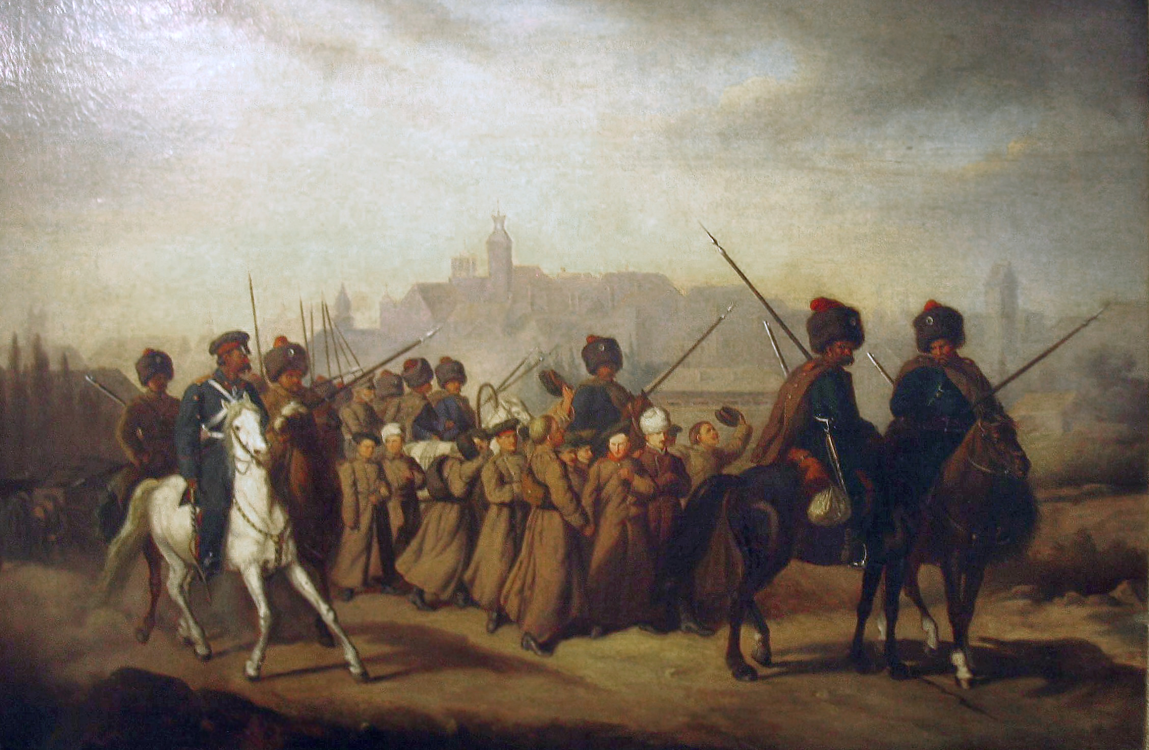 Branka 1863 by Alksander (Avrom) Sochaczewski (1843-1923)